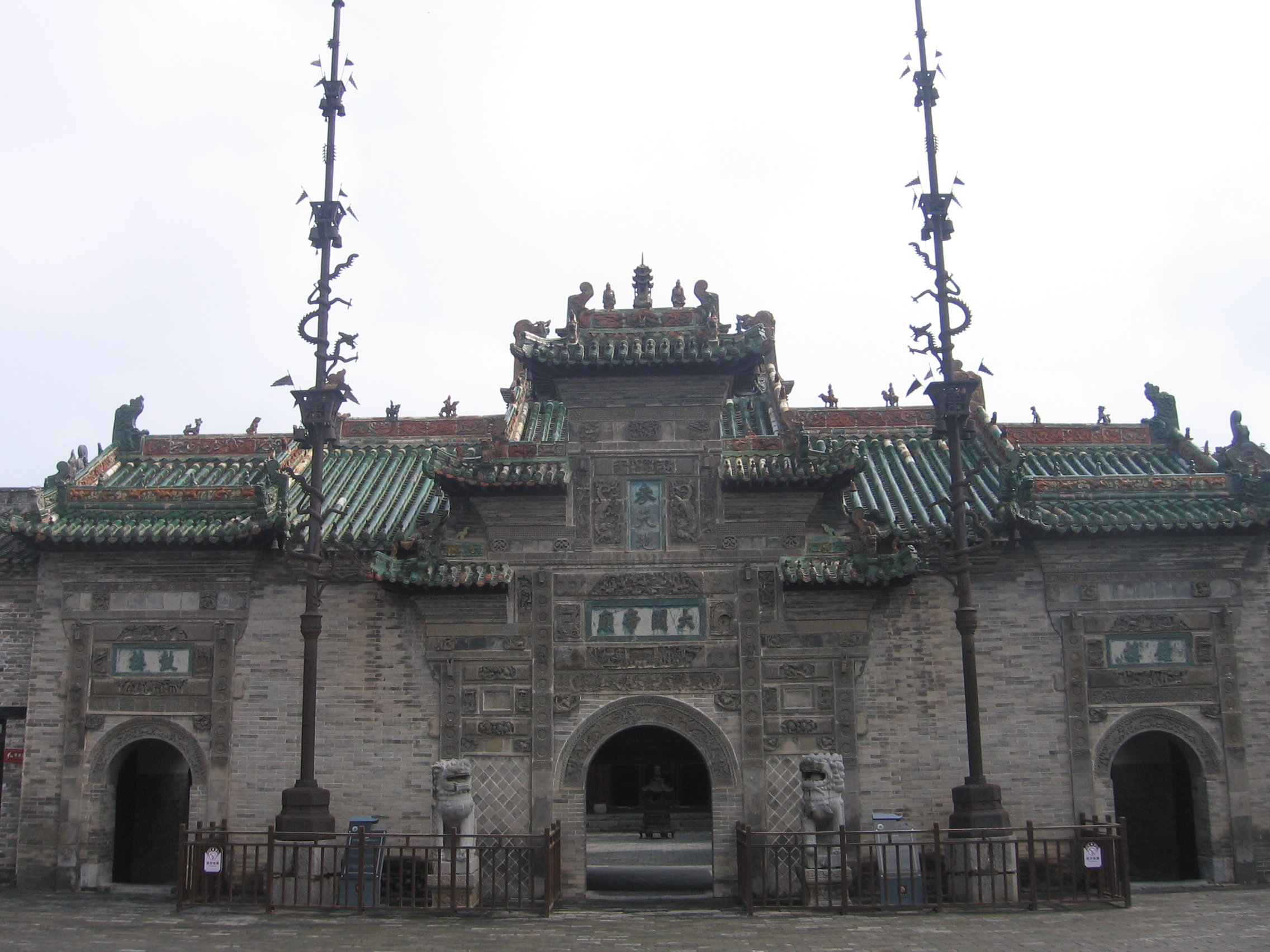 Flower Peking Opera Theater in Bozhou, Anhui, China.